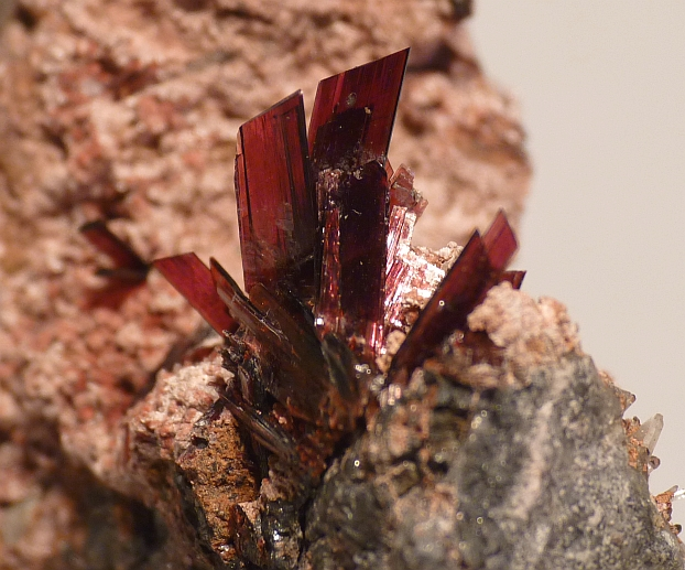 Erythrite Locality: Agoudal Centre Quarry, Agoudal, Bou Azer District (Bou Azzer District), Tazenakht, Ouarzazate Province, Souss-Massa-Draâ Region, Morocco Field of view 3.3 cm. Specimen and photo Leon Hupperichs.